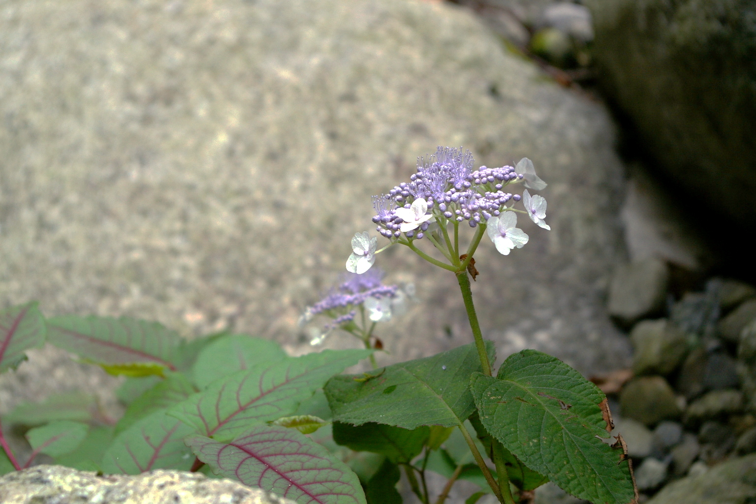 H. macrophylla subsp. serrata (Agi, Nakatsugawa City, Gifu Pref., Japan)